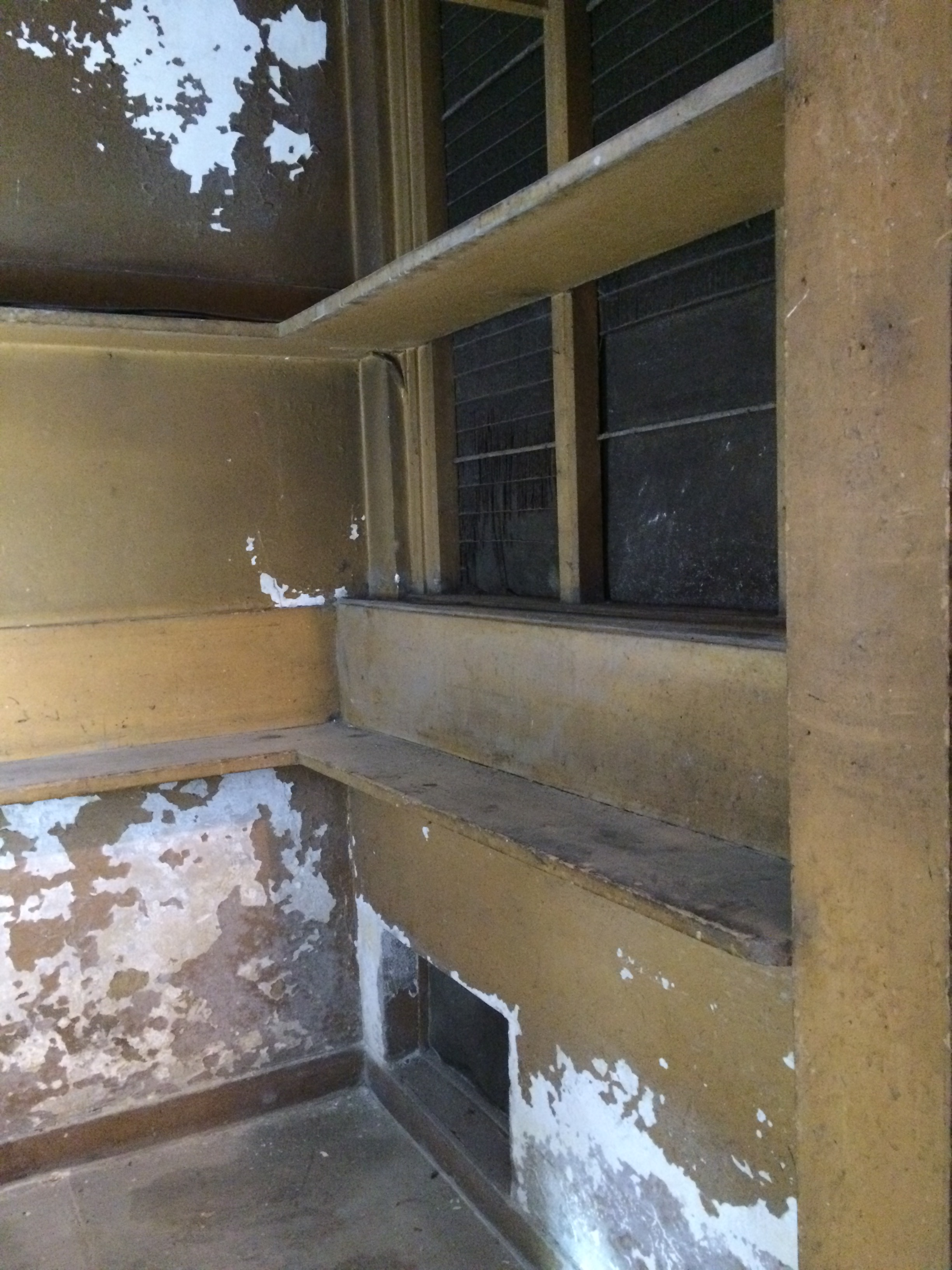 Inside a larder with wooden shelves and wire gauze to keep vermin out.